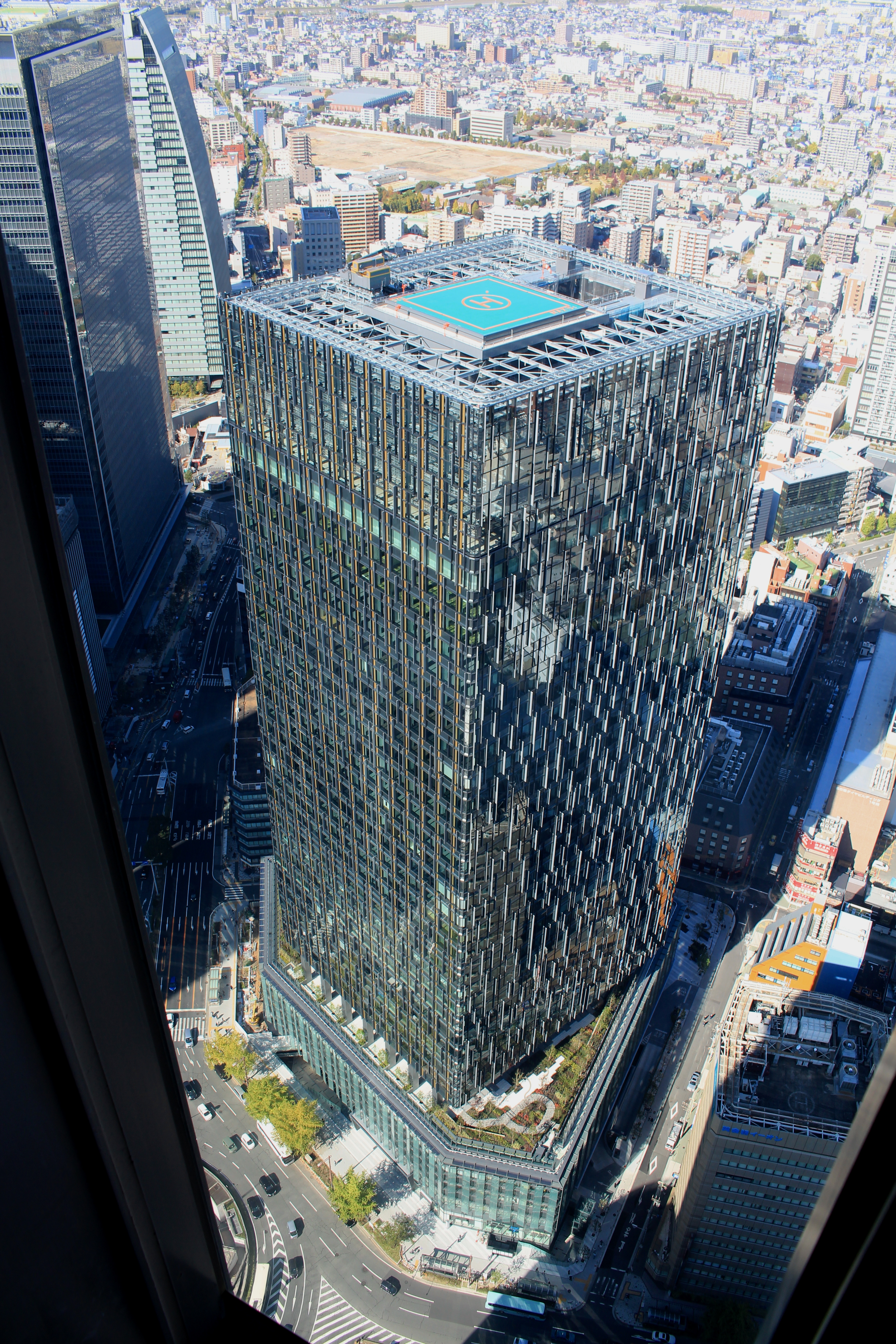 Dai-Nagoya Building seen from Midland Square, in Meieki, Nakamura, Nagoya, Aichi prefecture, Japan.